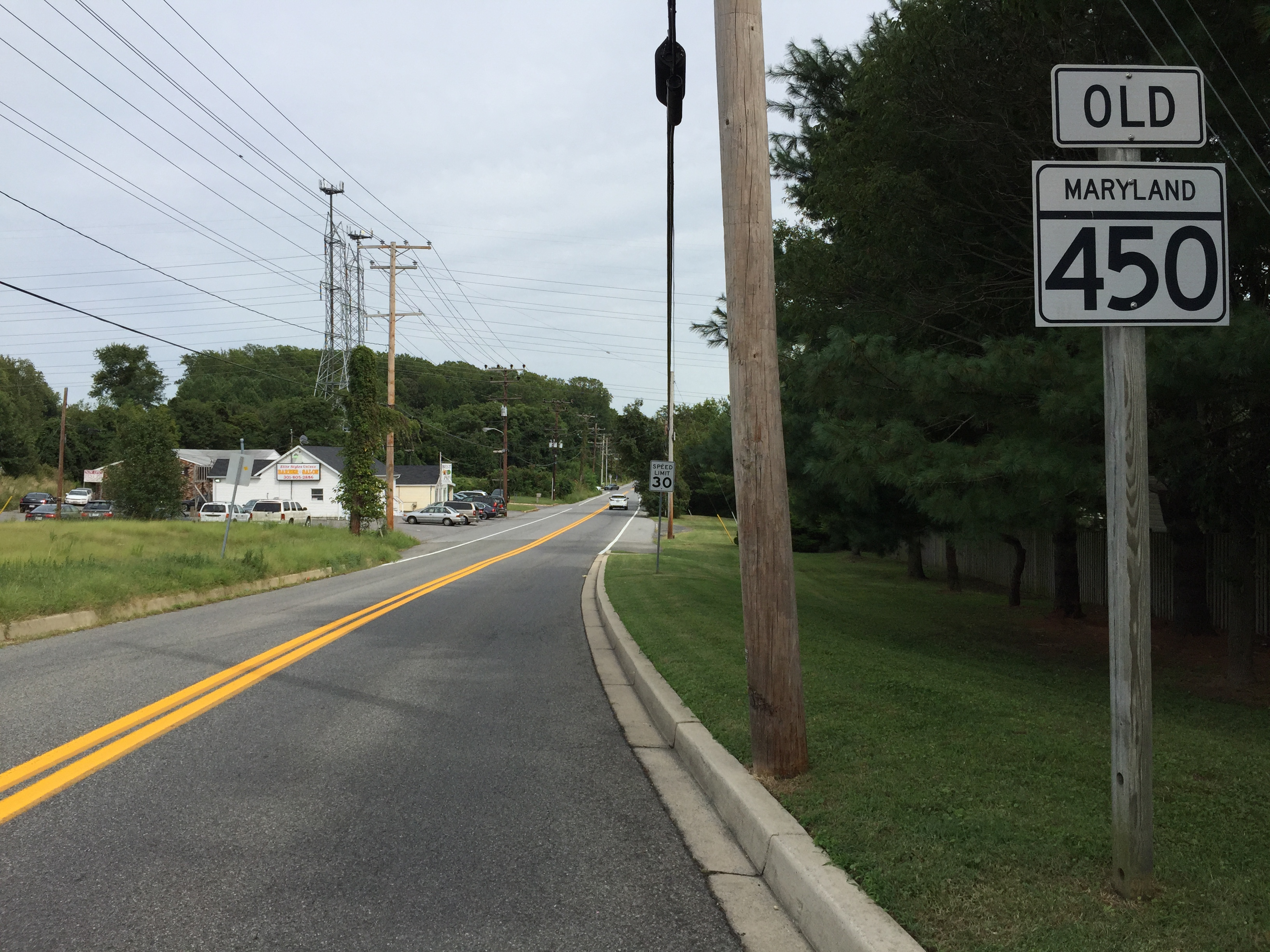 View east along Old Maryland State Route 450 (Old Annapolis Road) at Maryland State Route 450 (Annapolis Road) in Bowie, Prince Georges County, Maryland